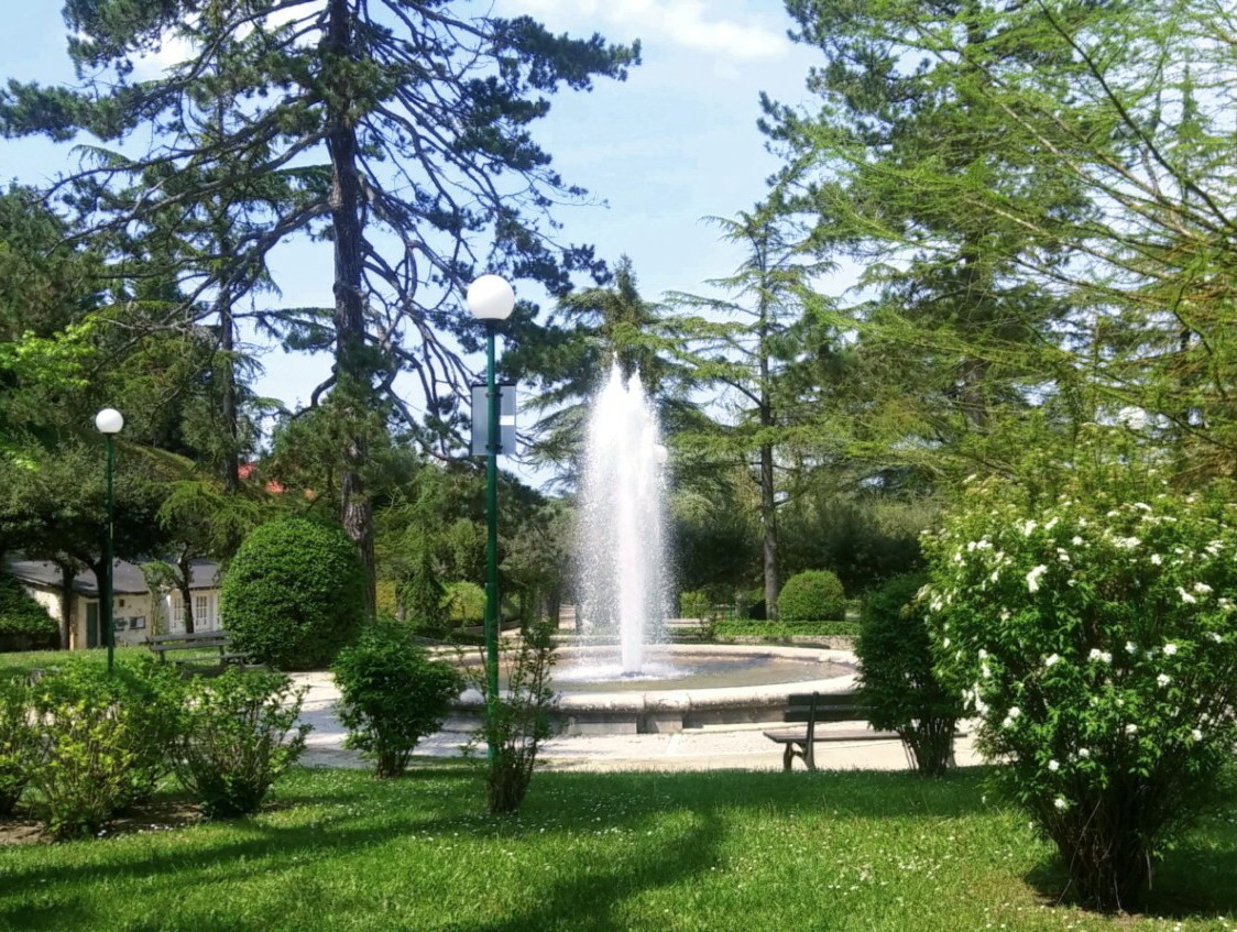 A fish fountain in Ariano Irpino Public Park, Italy